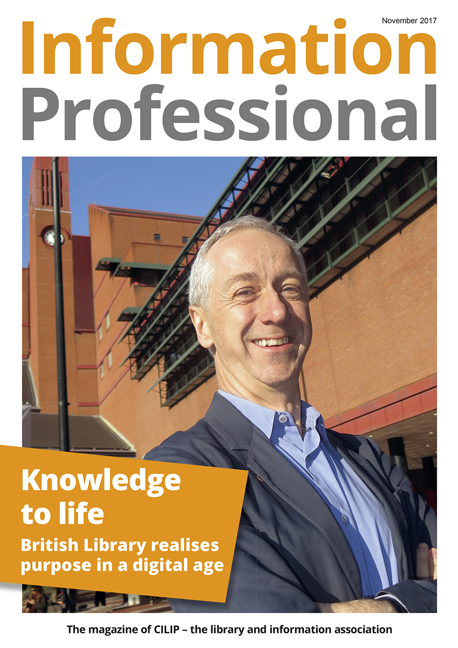 The cover of the inaugural issue of CILIP's journal, Information Professional, November 2017